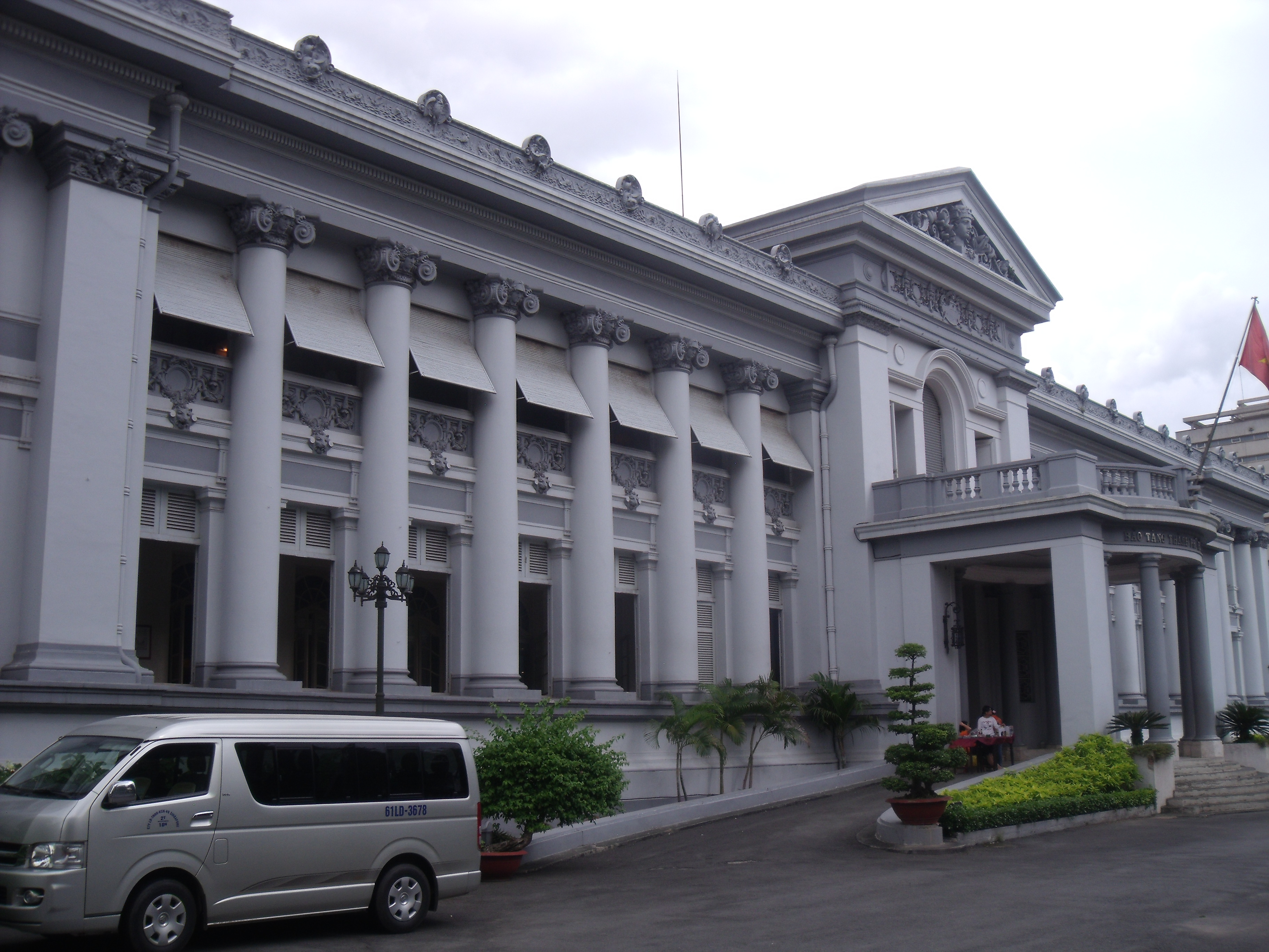 Museum of Ho Chi Minh City, 65 Lý Tự Trọng, Bến Nghé, Thành phố, Hồ Chí Minh, Ho Chi Minh City, Vietnam.